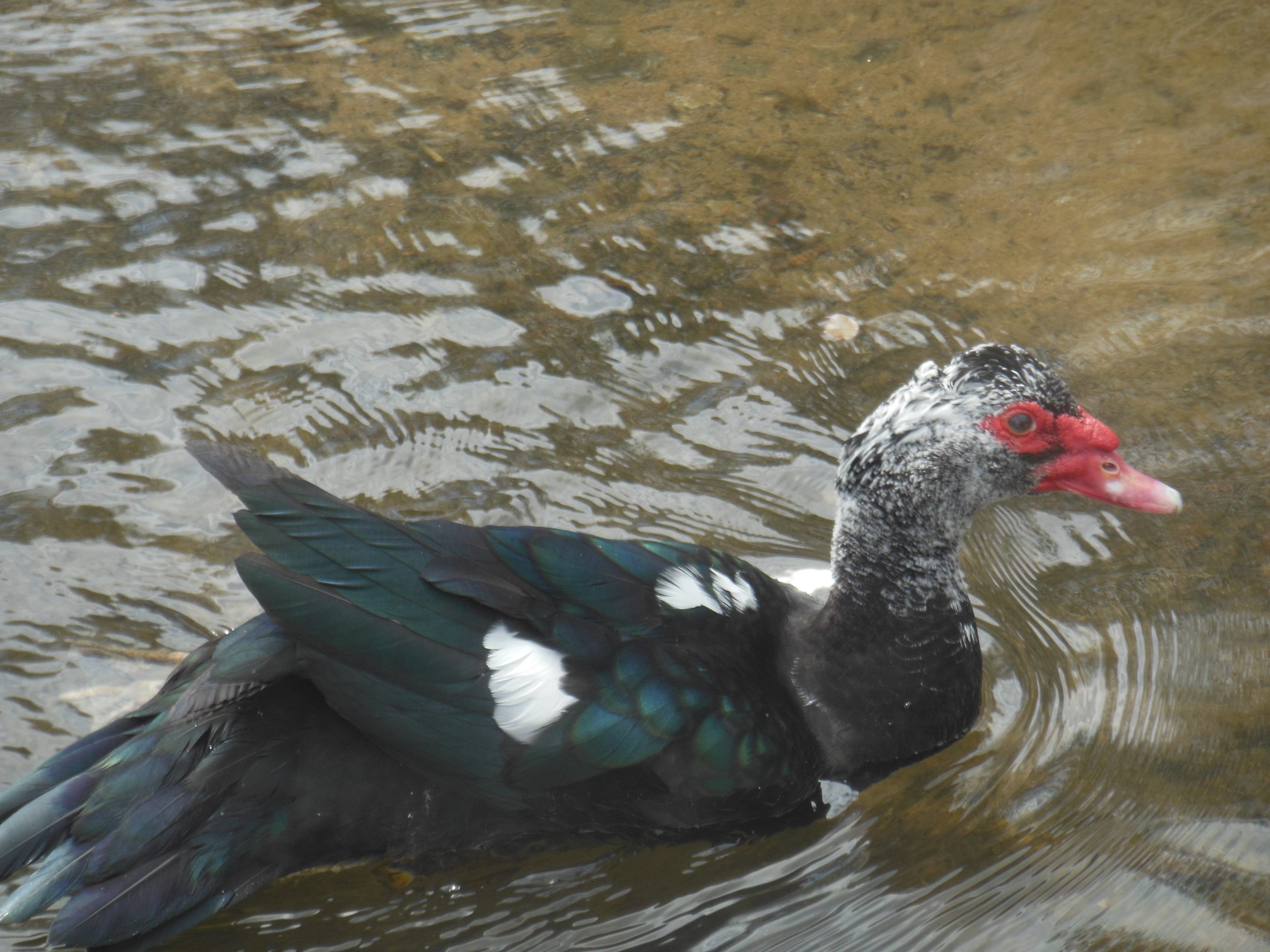 Muscovy drake